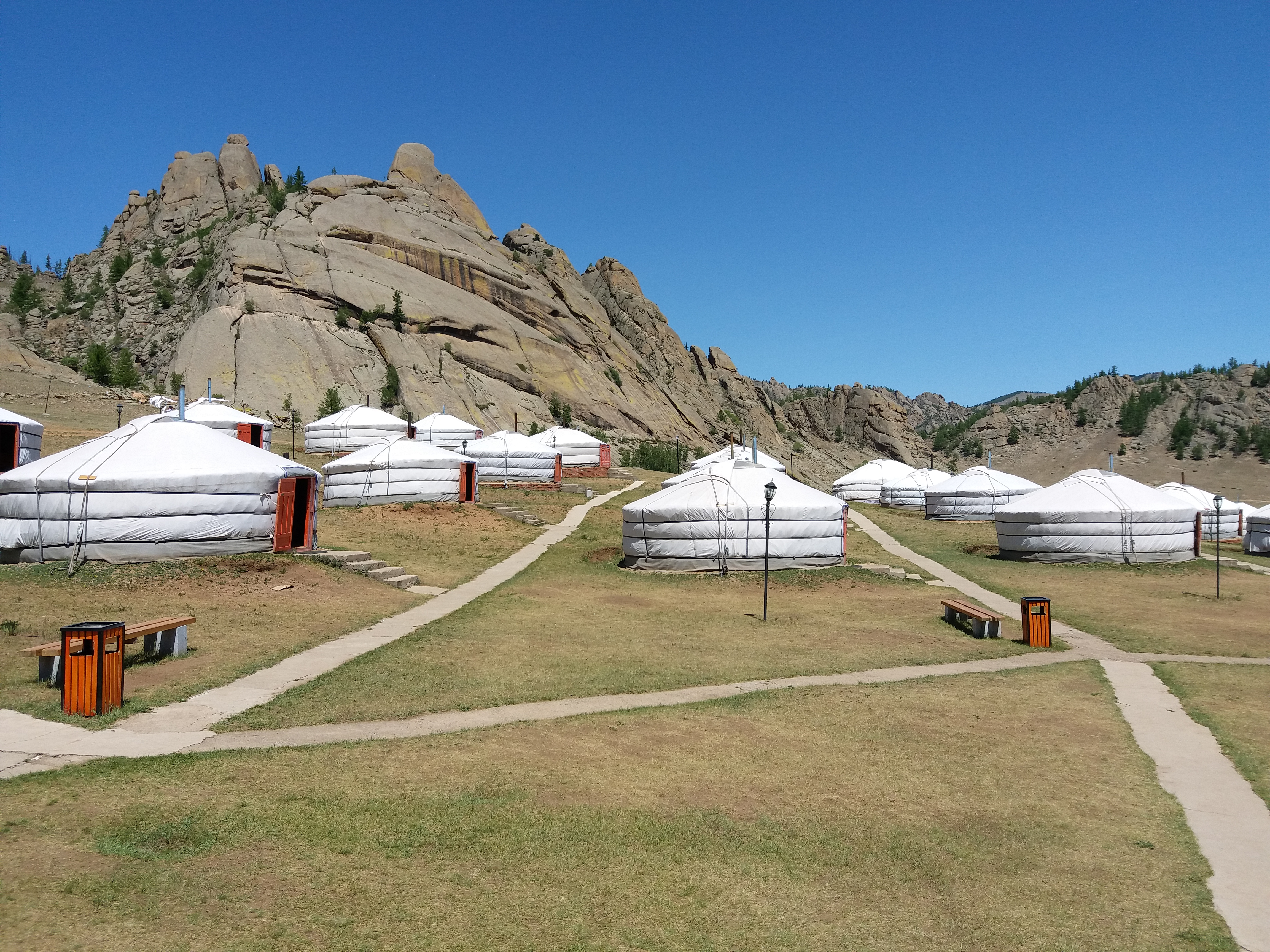 This photo has been taken in the country: Mongolia